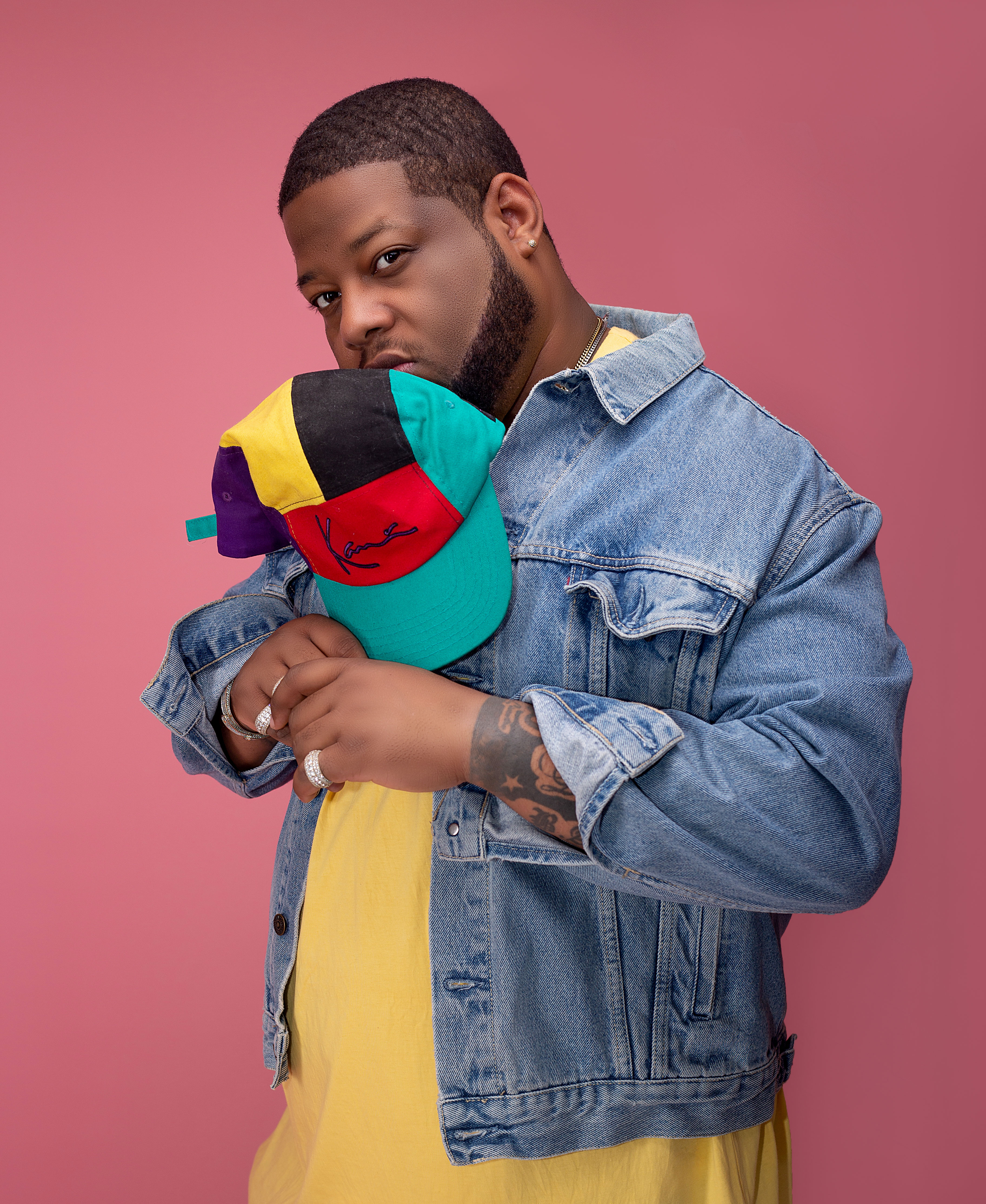 D-BLACK 2020 PHOTOSHOOT